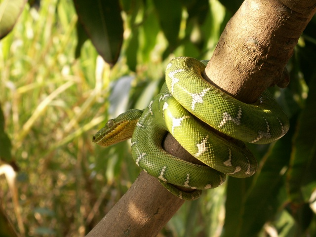 Emerald tree Boa